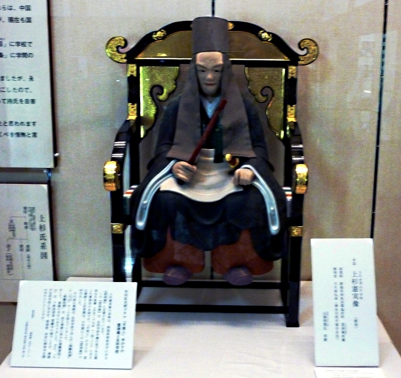 I took this photo on a trip to Japan in 2010. Wood with crystal eyes. 78 cm height. dated 1535..